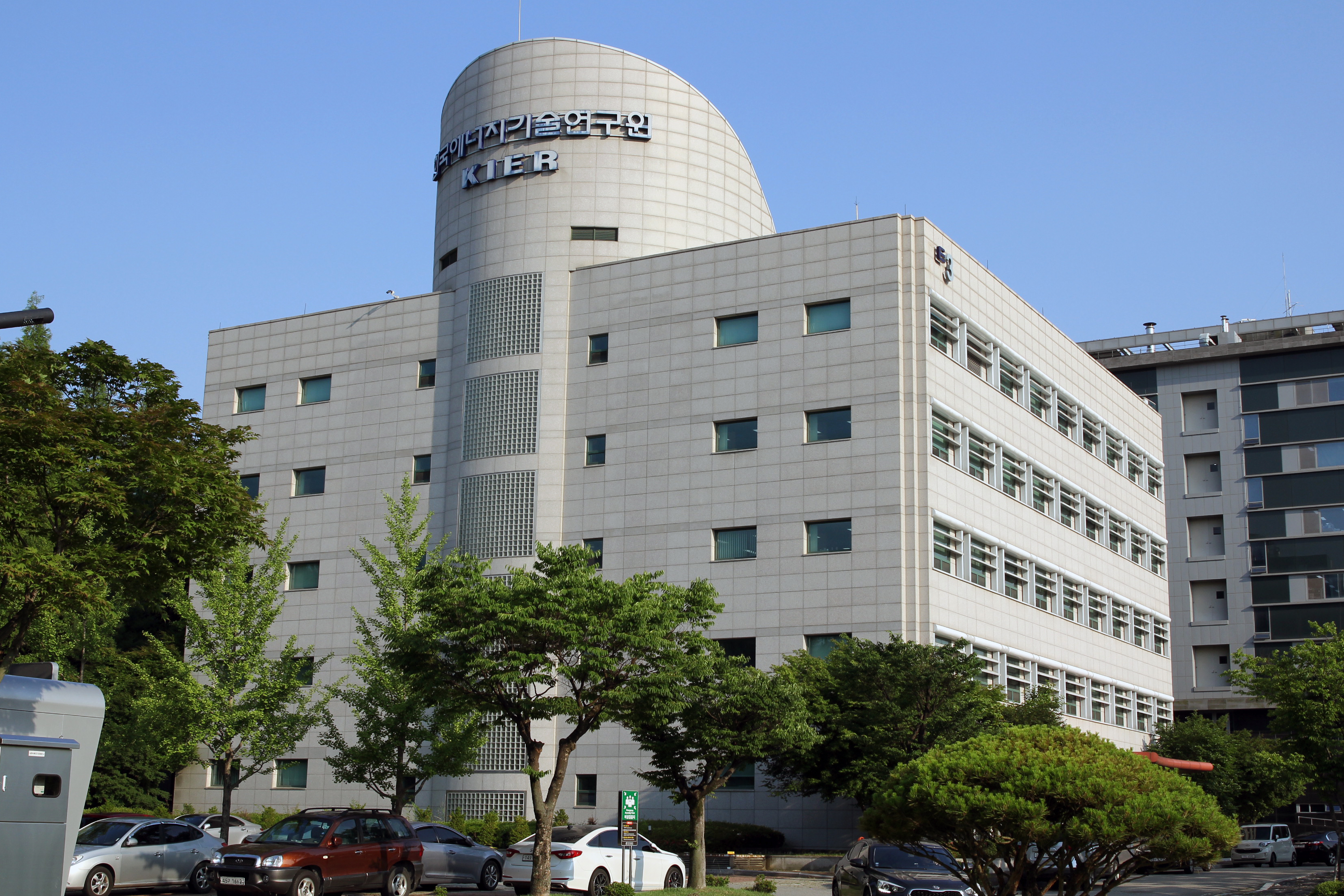 Korea Institute of Energy Research